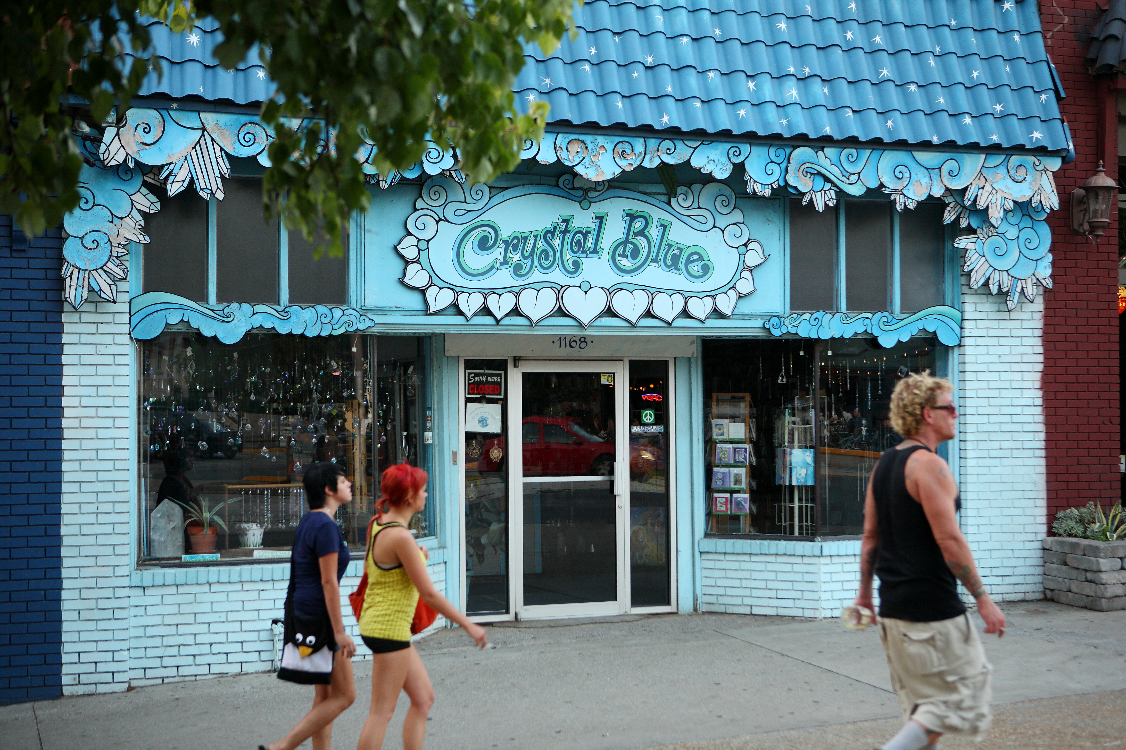 Store in Little Five Points, Atlanta, Georgia, USA